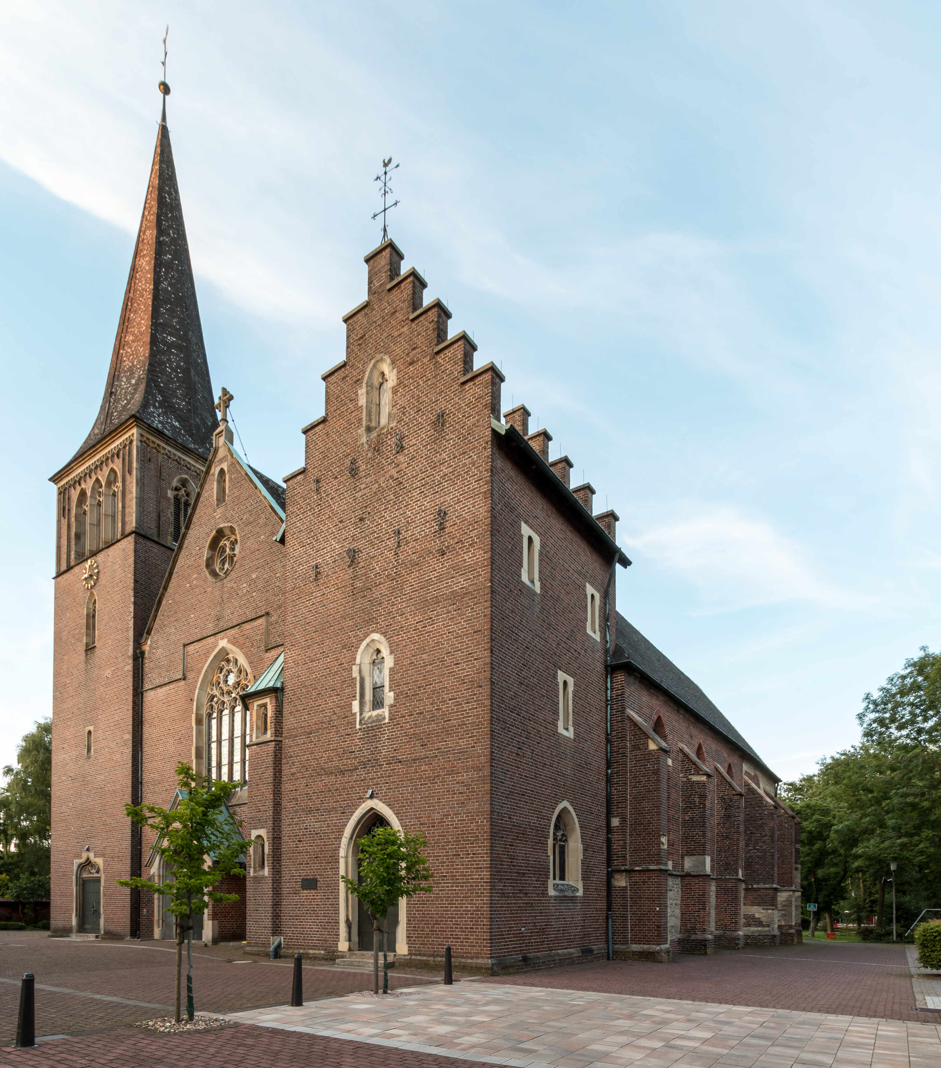 St. Agatha's Church, Rorup, Dülmen, North Rhine-Westphalia, Germany This image shows a heritage building in Germany, located in the North Rhine-Westphalian city Dülmen (no. 25).